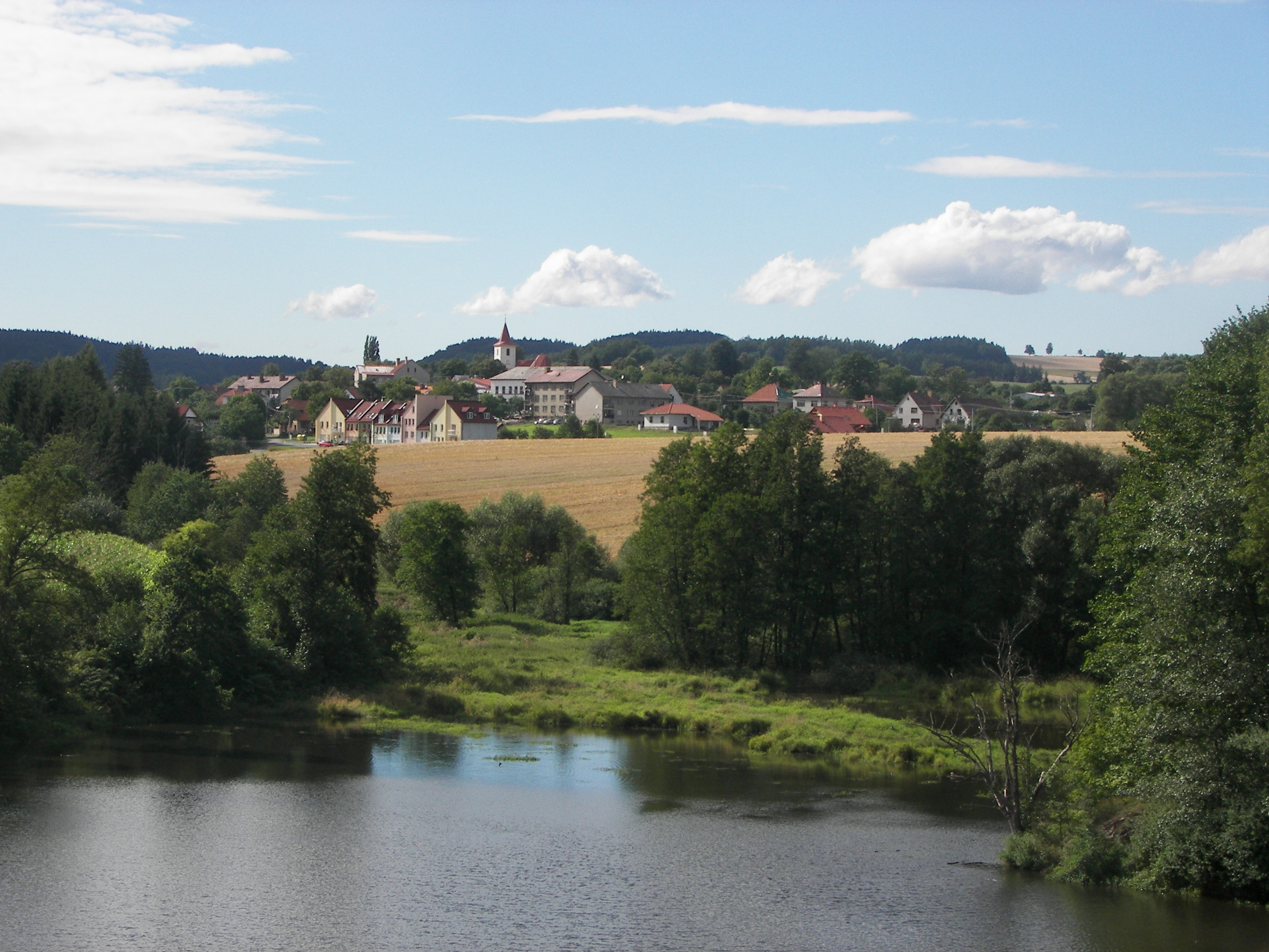 Market town of Borotin (Tábor District) as seen from local "Old Castle" (Stary zamek).